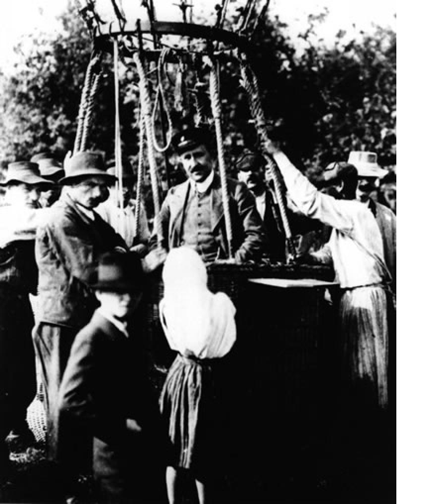 Victor Franz Hess back from his balloon flight in August 1912